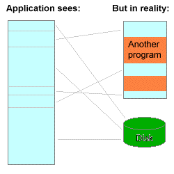 Virtual memory: The block on the left shows a large, contiguous range of addresses as an application program sees it. But in reality the parts of the program's address range which are currently being used are scattered around real physical memory (e.g. RAM), and the inactive parts are saved in a disk file.